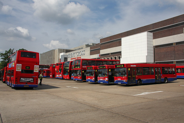 Brent Cross Bus Station Buses to all sorts of destinations wait their departure time in the centre of the hardstanding here. Behind the massed ranks of red stands the shopping centre. The inspector is walking across to remind the driver of my 143 ride home that it is time to 'get that bus out' (it's the second nearest with its doors open). The clouds are gathering and it's going to be a sultry overcast afternoon.